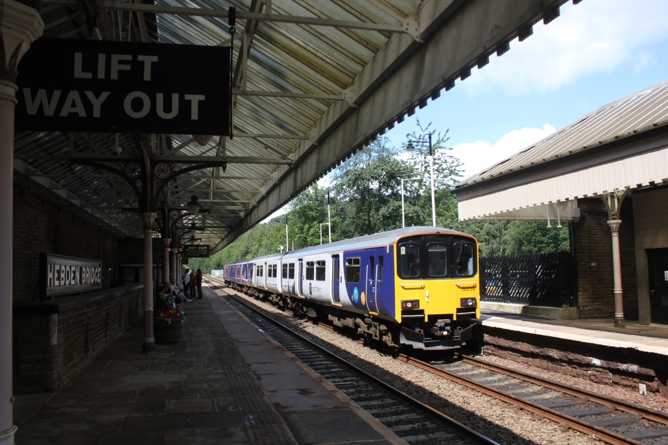 150139, which is in the new Northern colours, along with 150115 which isn't, at Hebden Bridge on a service to Leeds.